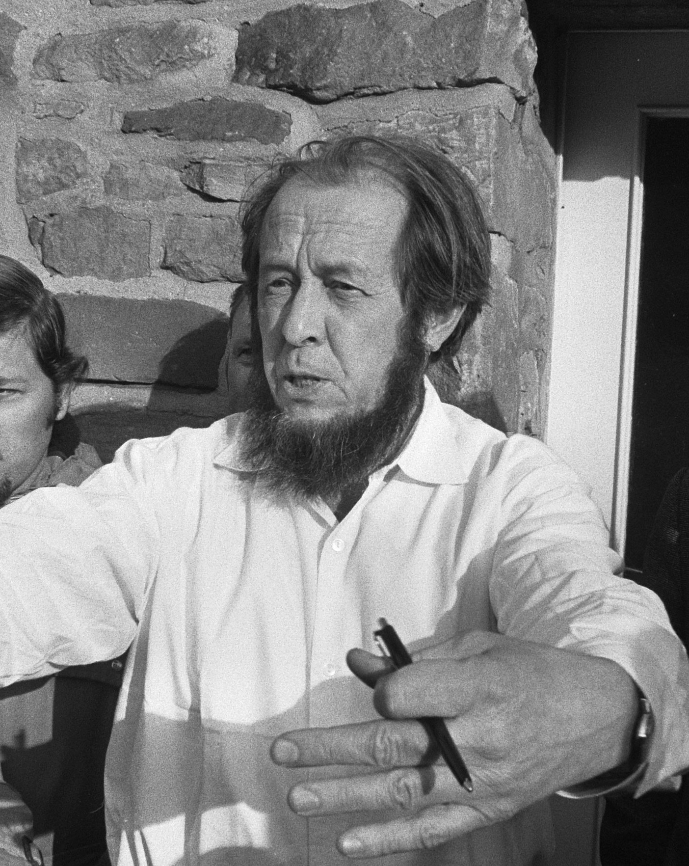 De Russische schrijver Alexander Solzjenitsyn is uitgewezen uit Rusland en verblijft nu in het huis van Heinrich Böll